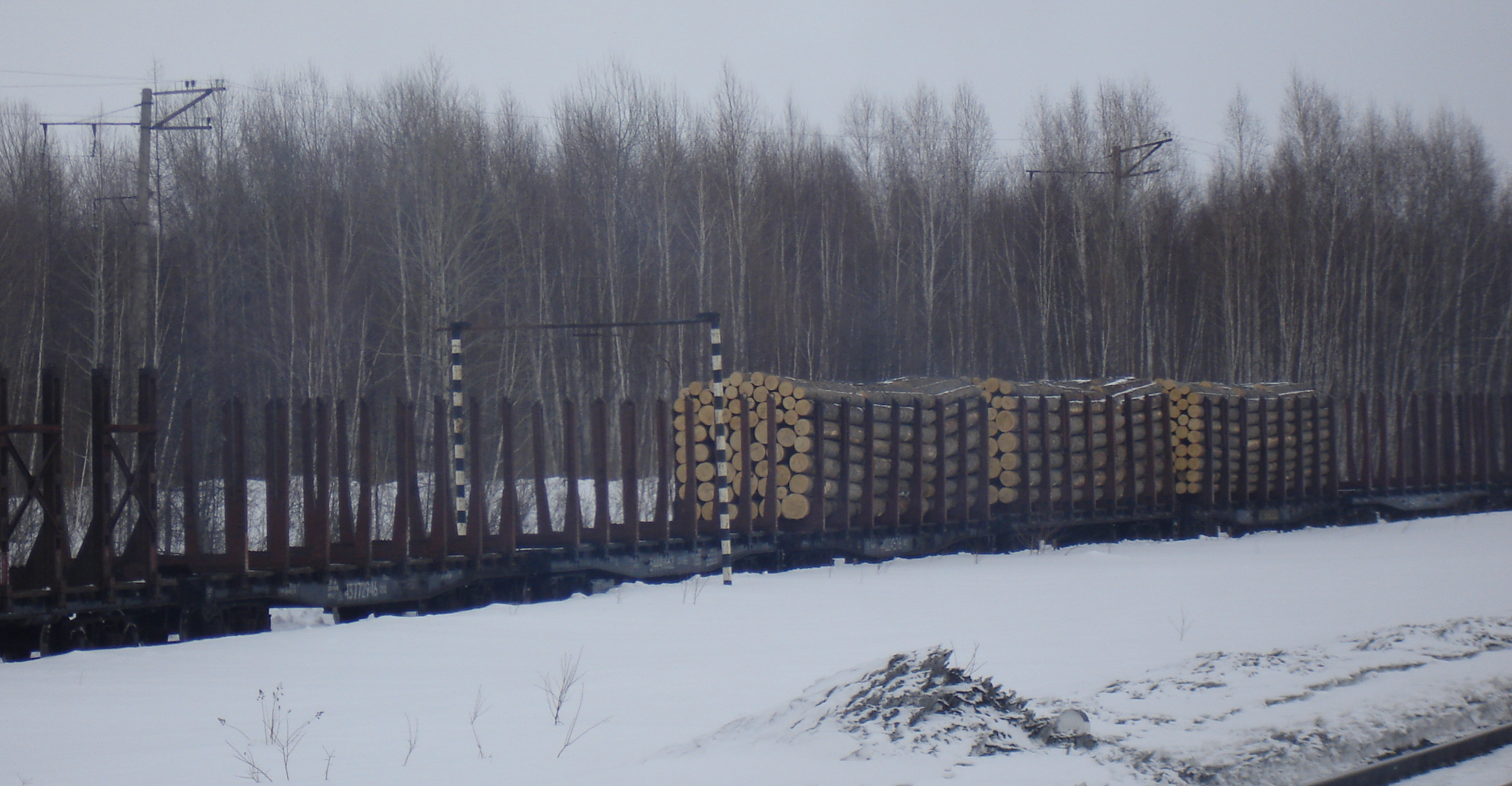 clearance gage